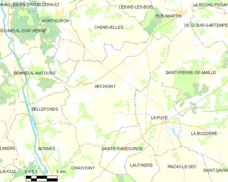 Map of French municipality Archigny